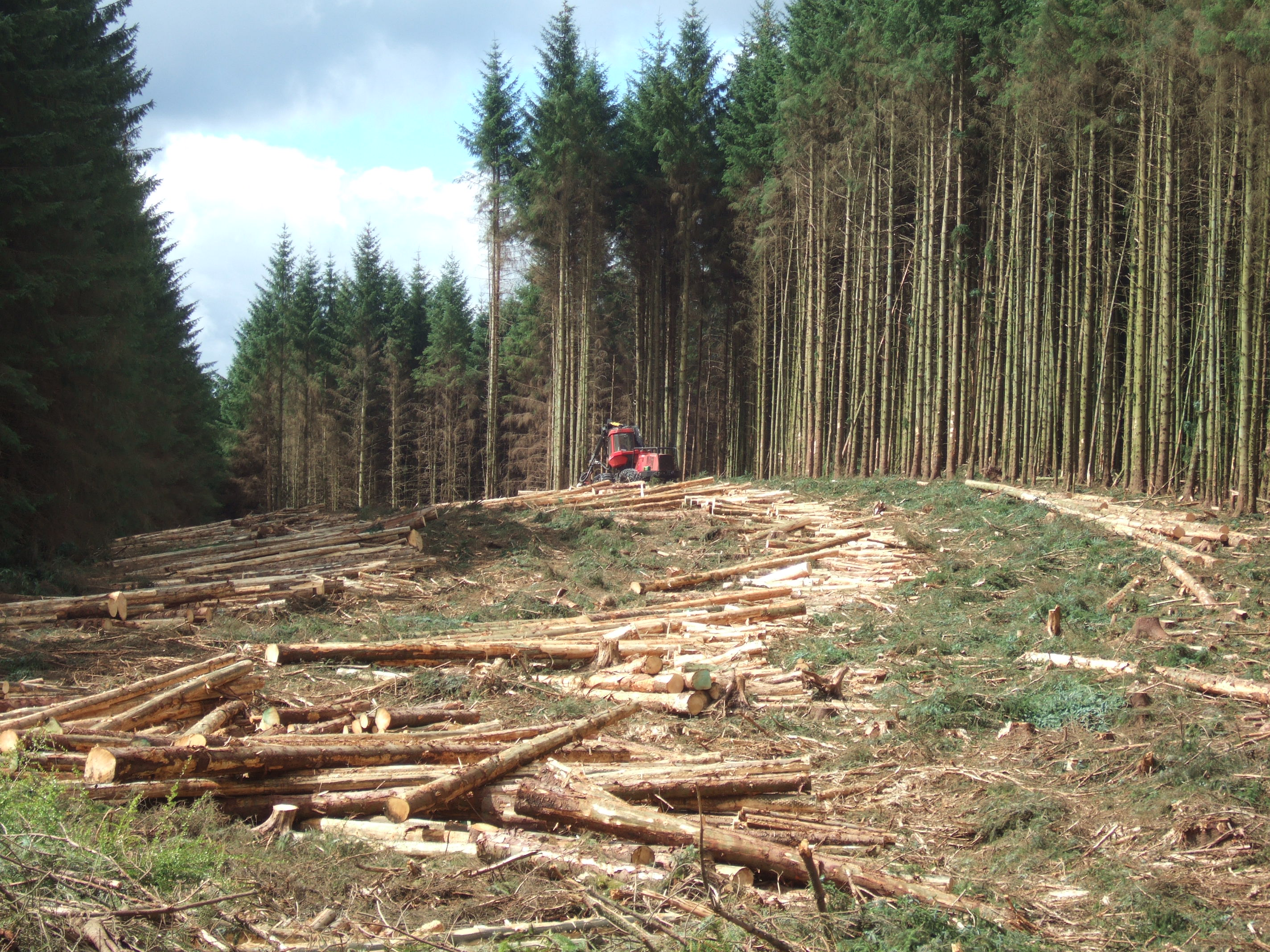 Timber harvesting at Kielder, a Valmet 941 harvester working in (southern) Kielder Forest, Northumberland, England